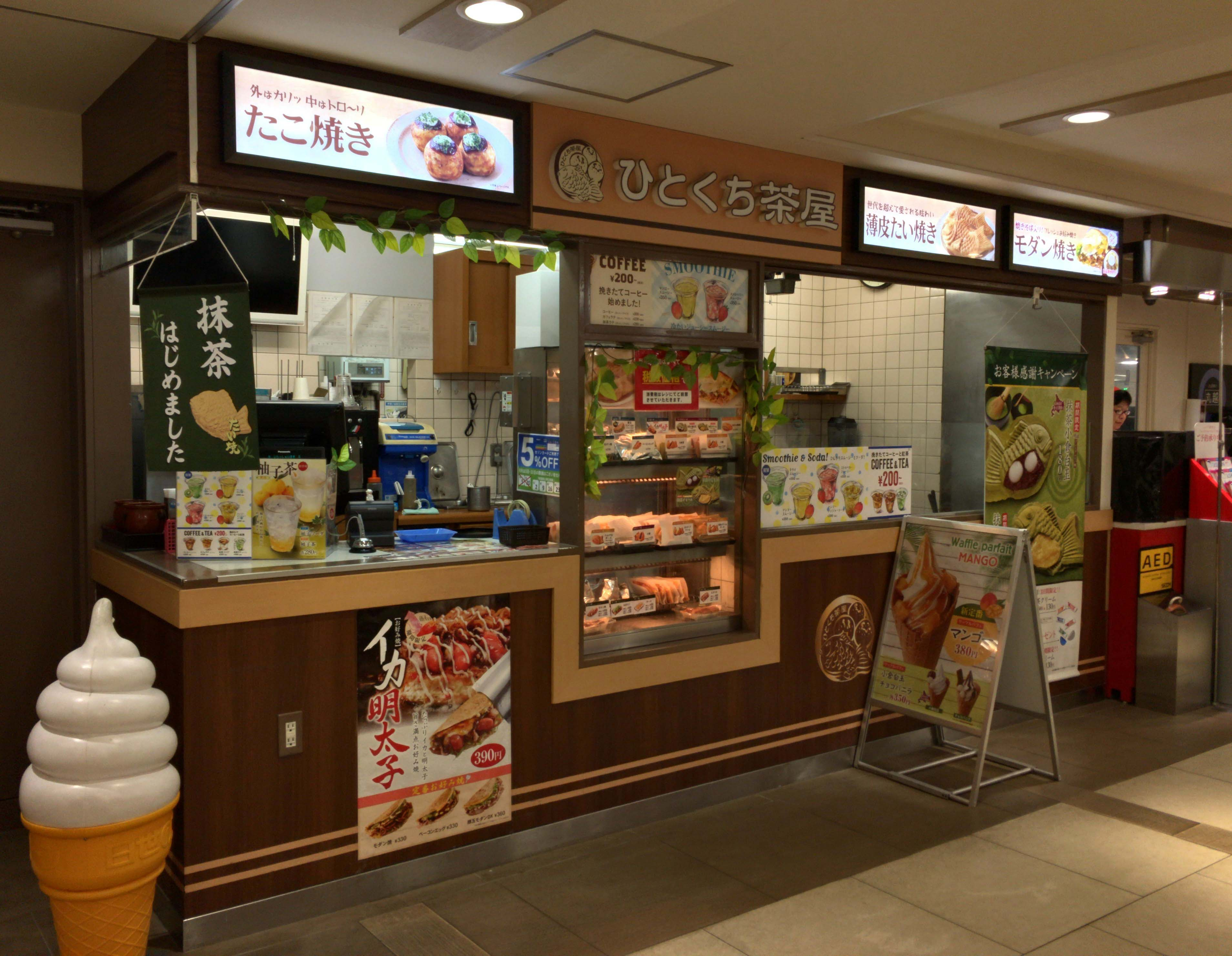 Hitokuchi-chaya (Taiyaki shop) Nerima-Seiyu branch (Tokyo, Japan)